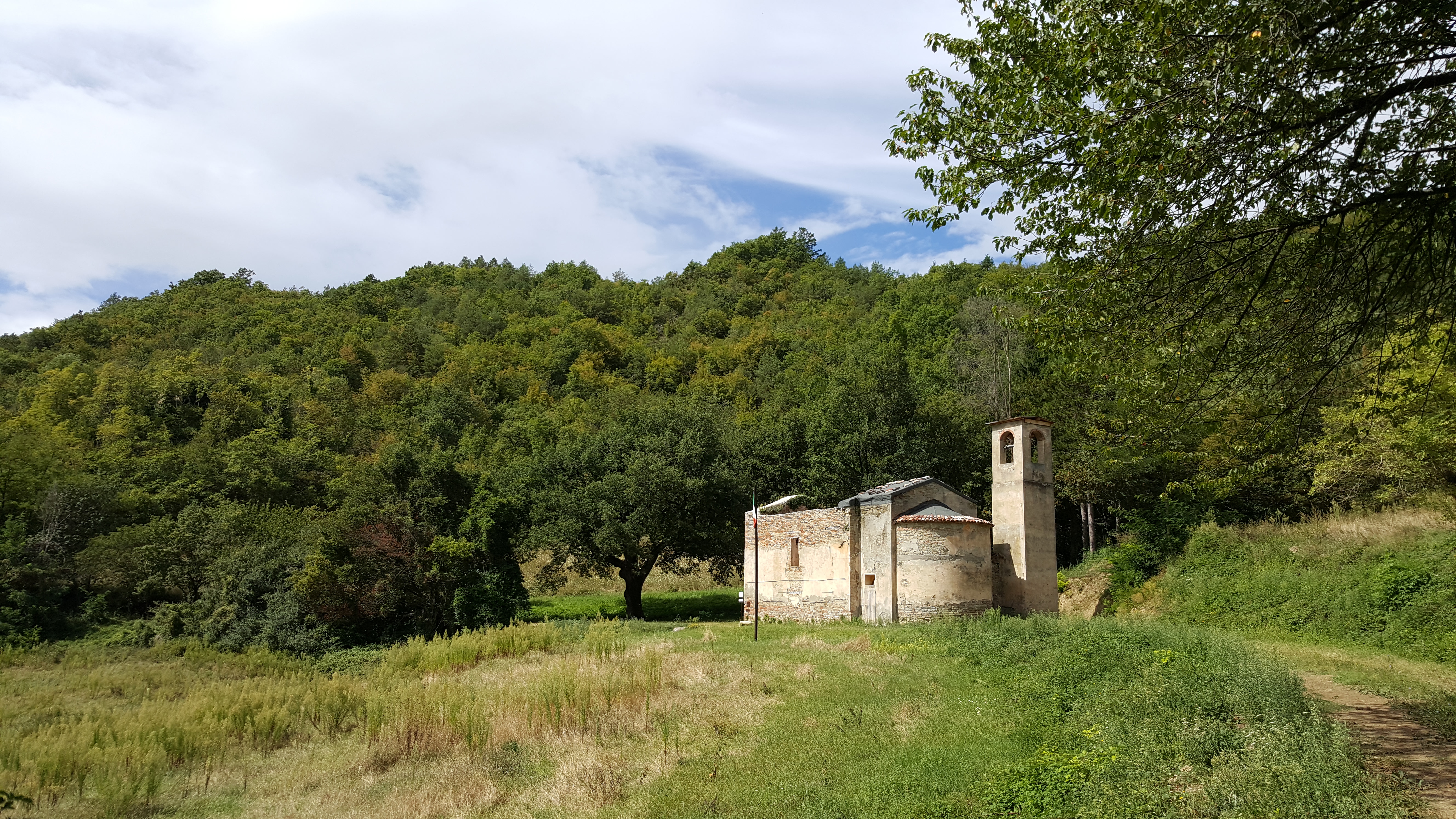 This is a photo of a monument which is part of cultural heritage of Italy.